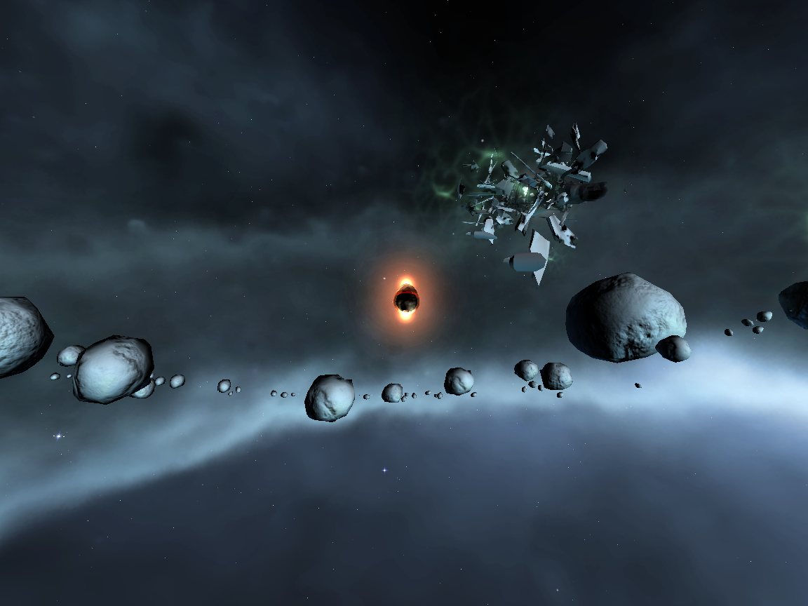 A Pod in space along side the wreck of the ship it was ejected from.